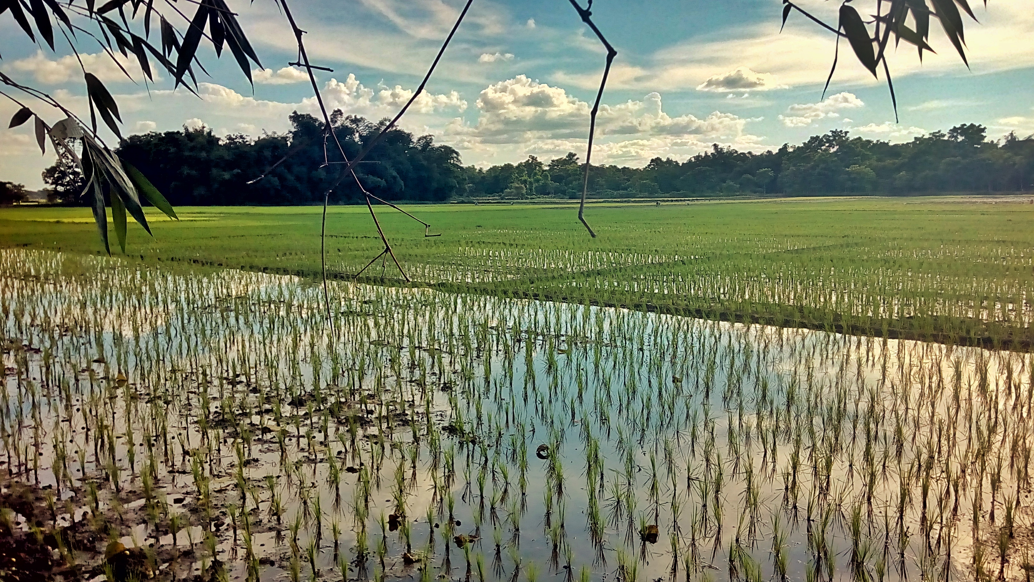 The image shows a paddy field shot during the month of July in Mushalpur area in Baksa District of Assam.